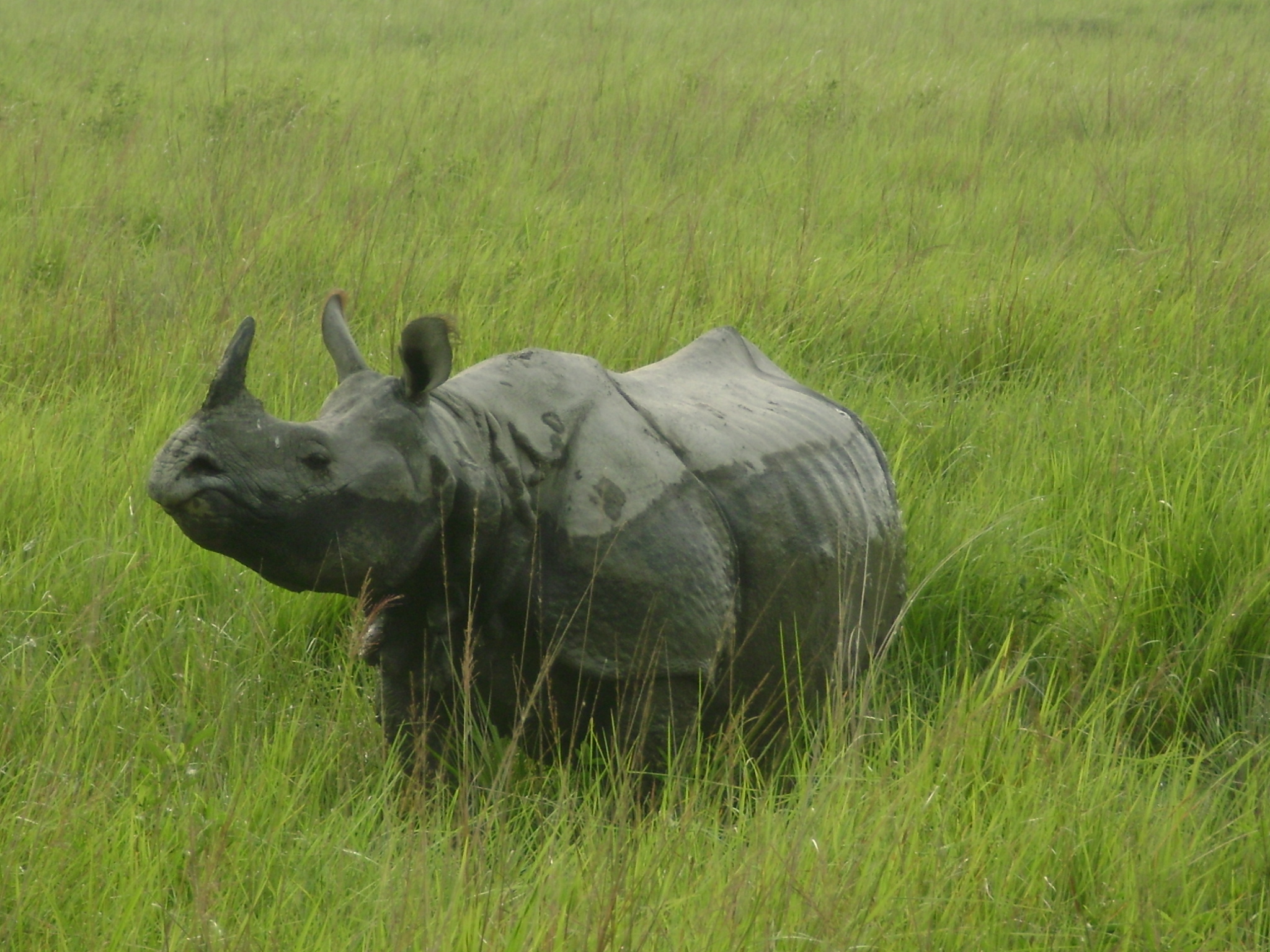 Indian Rhino of Assam, Kaziranga National Park, Assam, India.